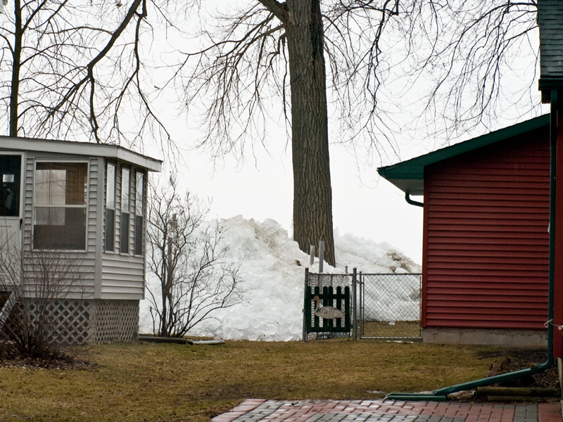 An ice shove at Brighton Beach, Menasha, Wisconsin, United States, in March 2009.